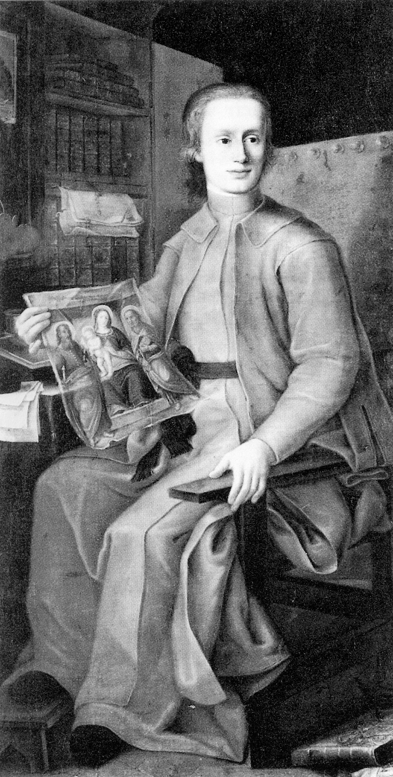 Ludwig Joseph von Welden, Bishop of Freising